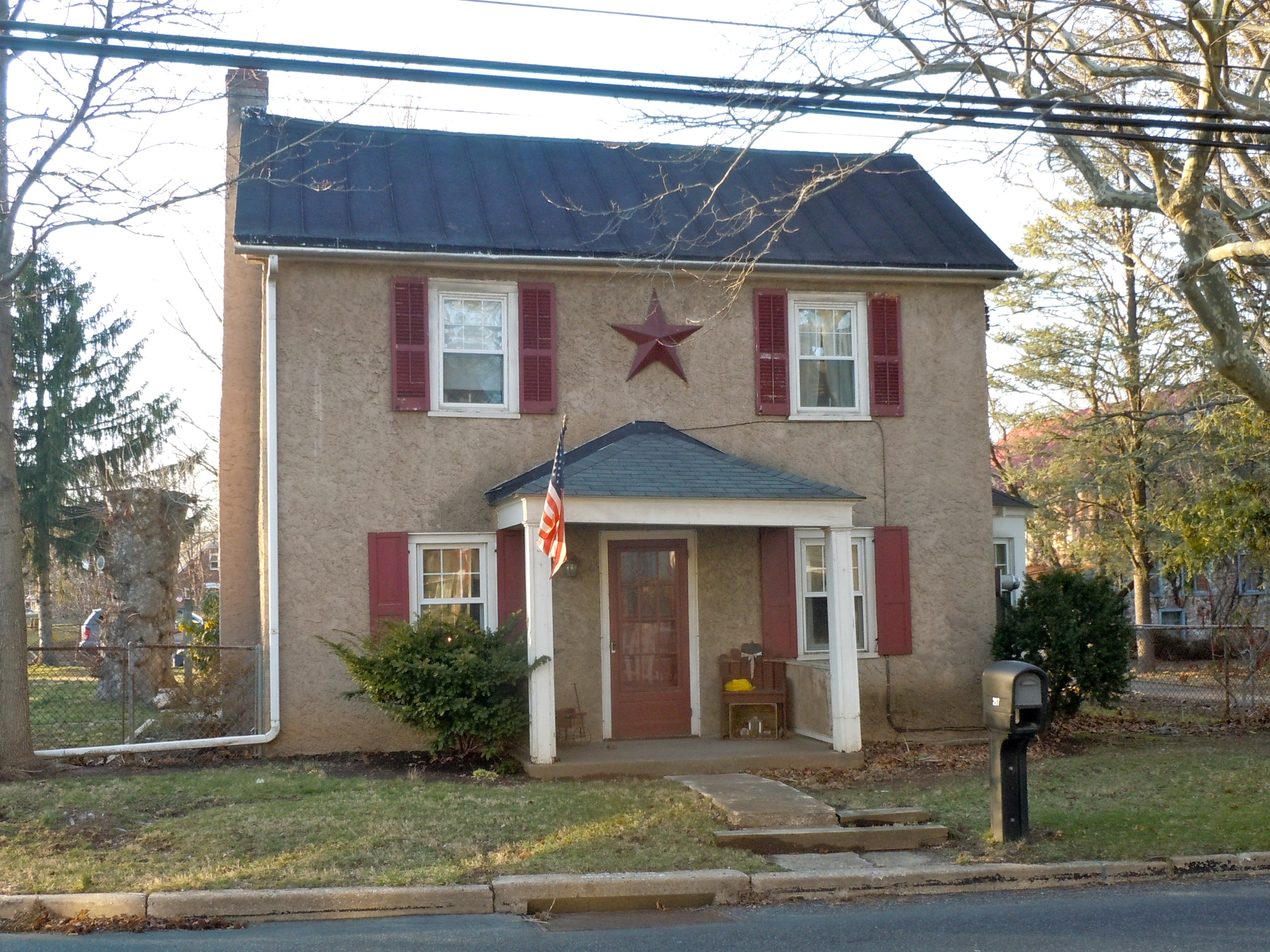 Pottstown Landing Historic District on the NRHP since August 31, 2001. The HD is roughly bounded by U.S. Route 422 bypass, Whartnaby Street 633 Laurelwood Road and Reiff Street in North Coventry Township, Chester County, Pennsylvania. This is a group of about 5 houses and a barn, located across the Schuylkil River from Pottstown, Pennsylvania. Location is rather odd, bounded by the river, under the expresway, with a big shopping mall on the side.